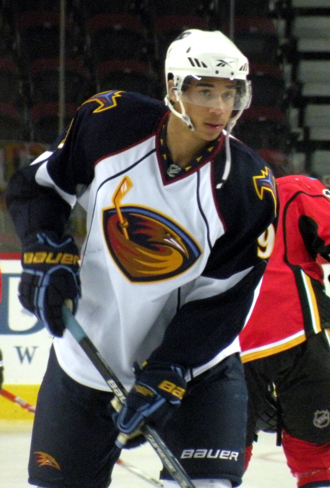 Atlanta Thrashers forward Evander Kane prior to a National Hockey League game against the Calgary Flames, in Calgary.